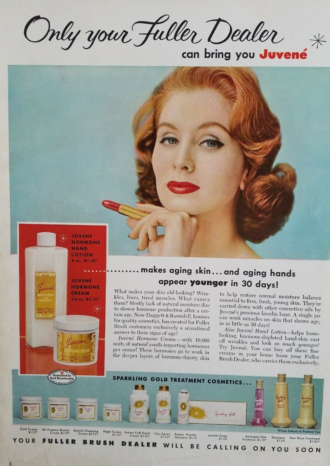 Suzy Parker - Only your Fuller Dealer can bring you Juvené, 1956